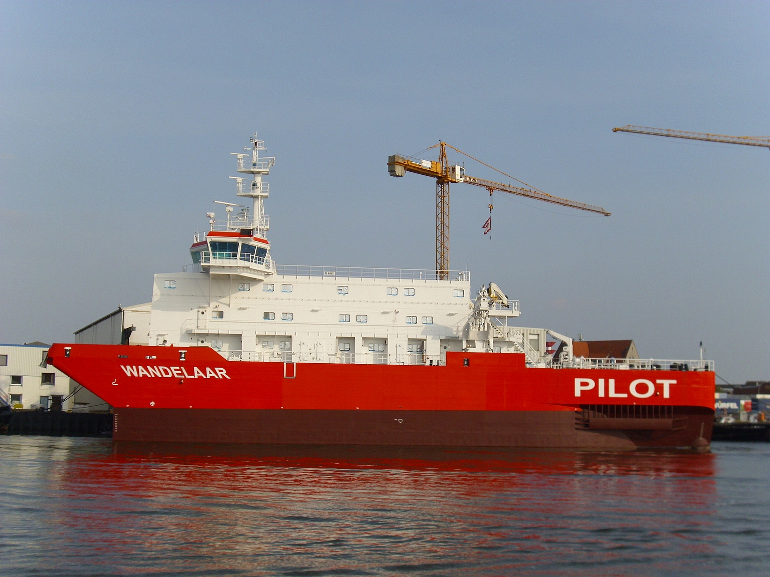 The pilot vessel Wandelaar will be delivered to Belgian sea pilots in 2012